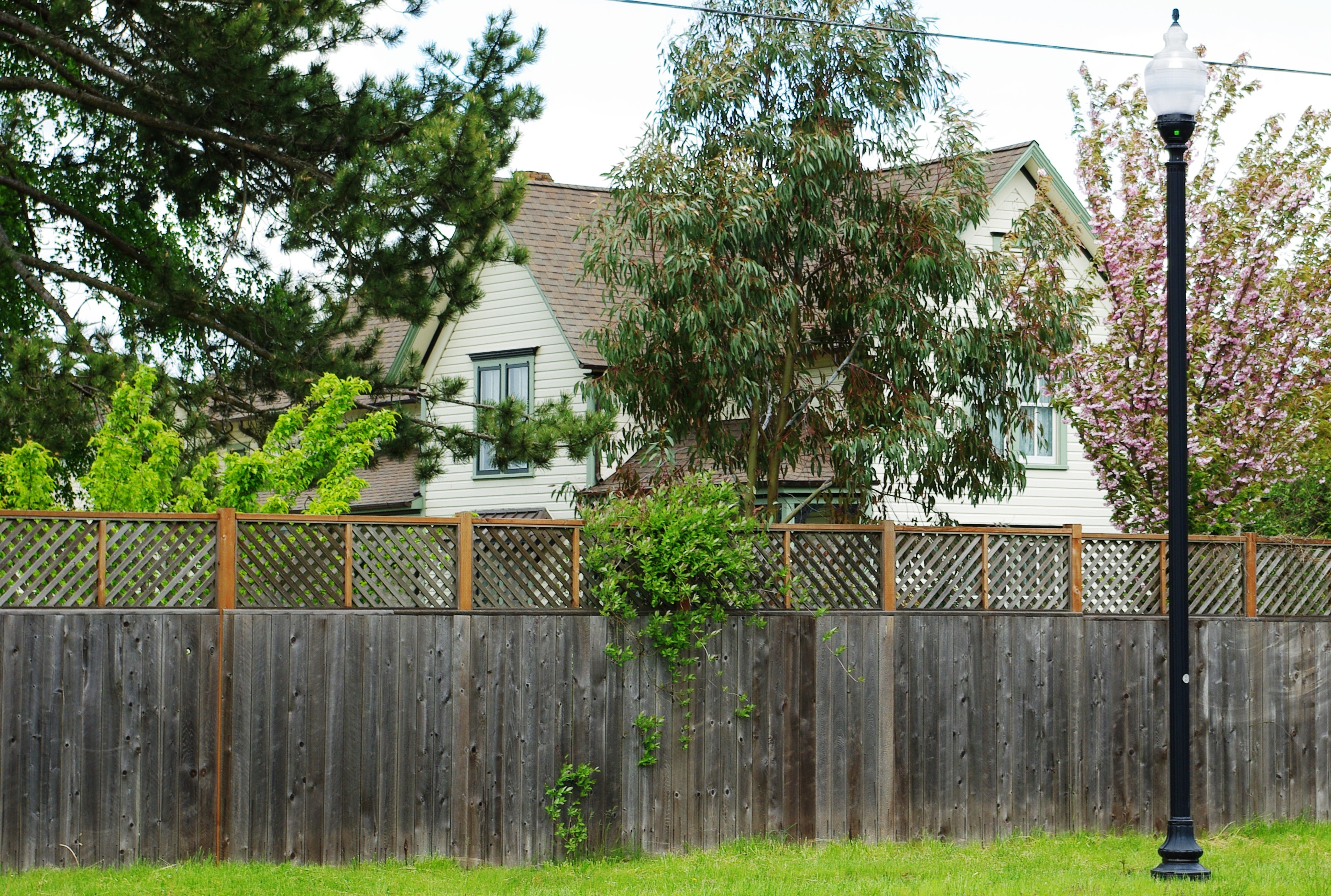 Manning-Kamna Farm in Hillsboro, Oregon.